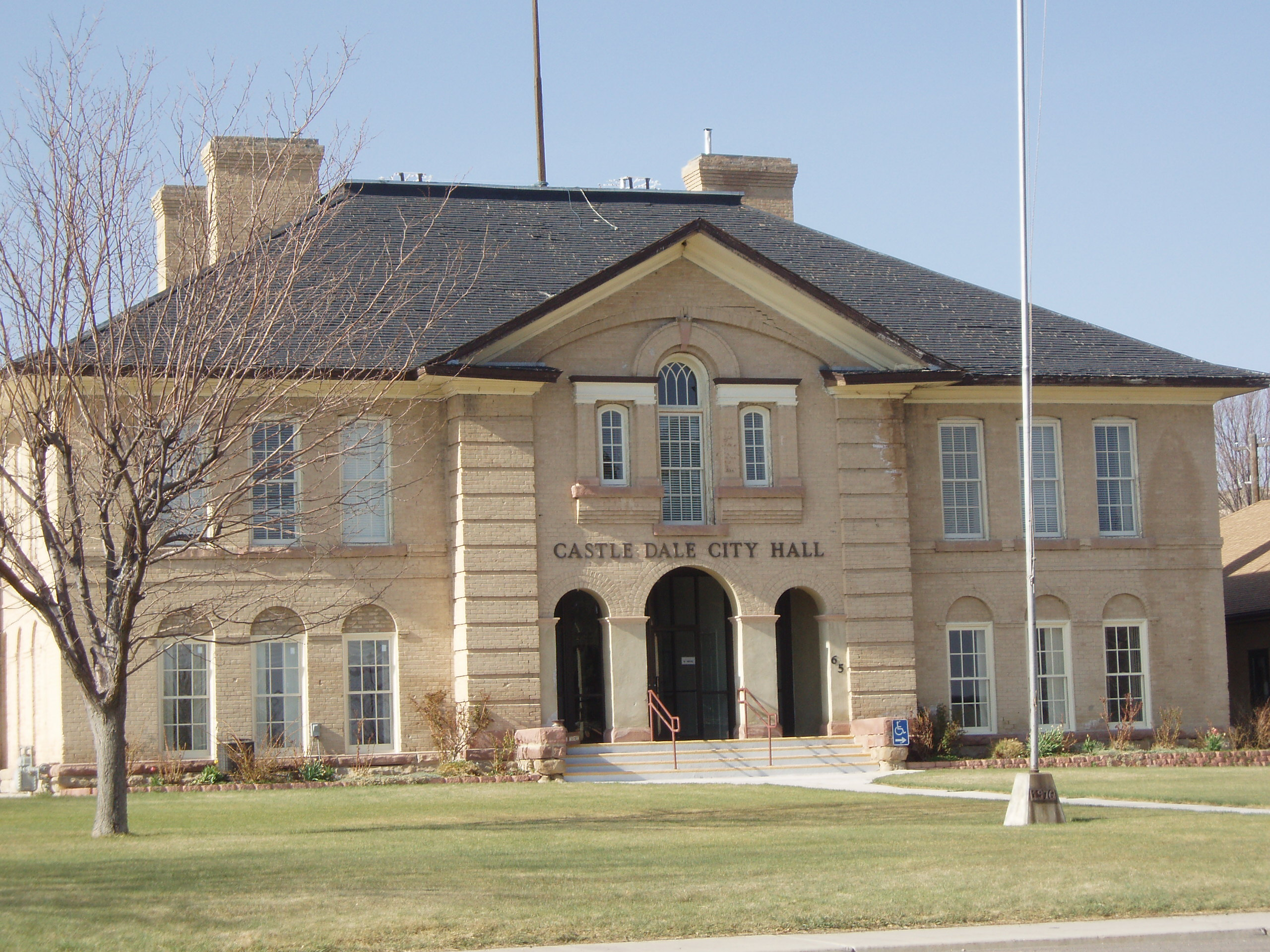 The city hall of Castle Dale, Utah, formerly the Castle Dale School.